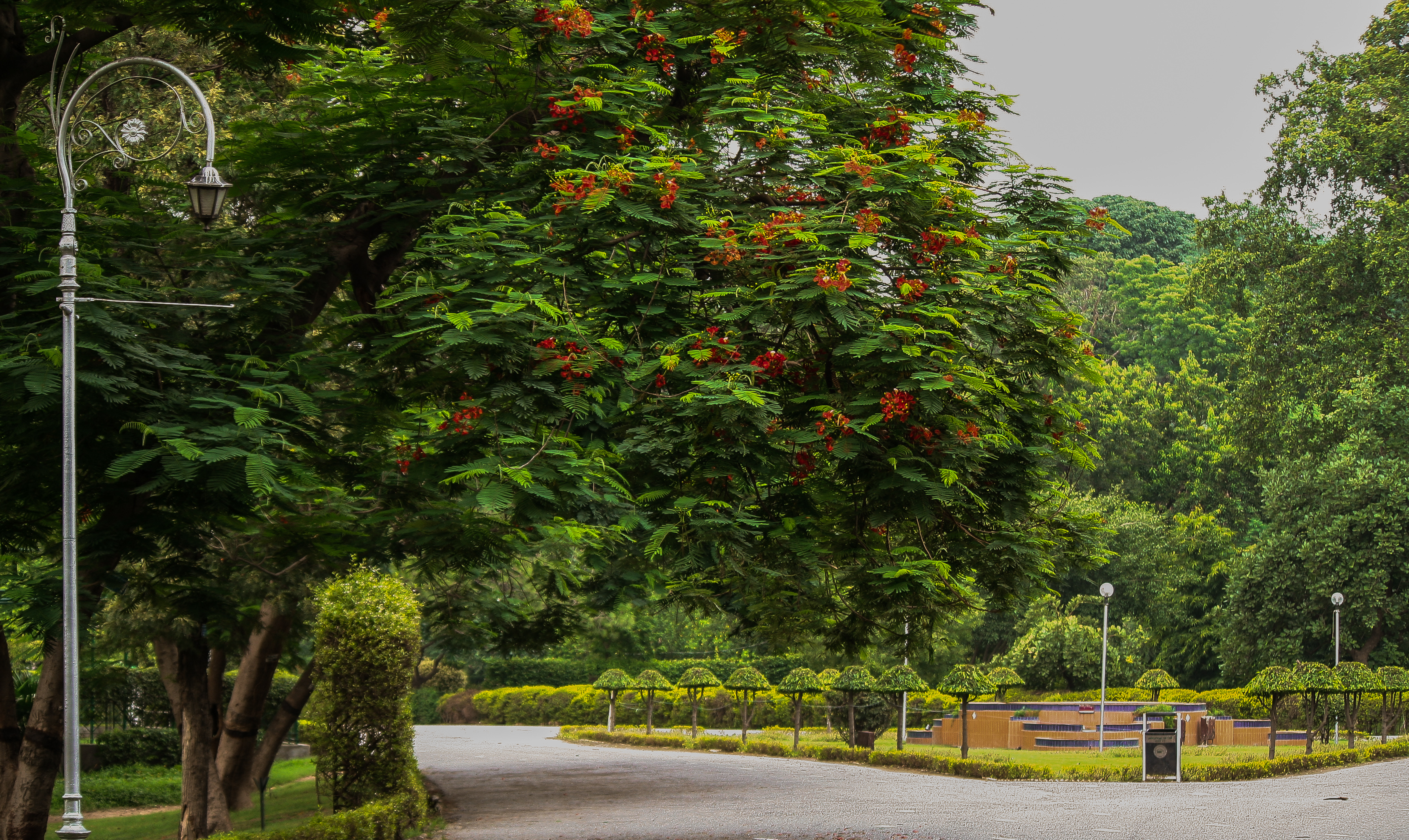 Nature-beauty in itself